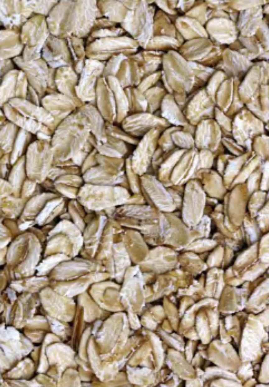 Oatmeal.